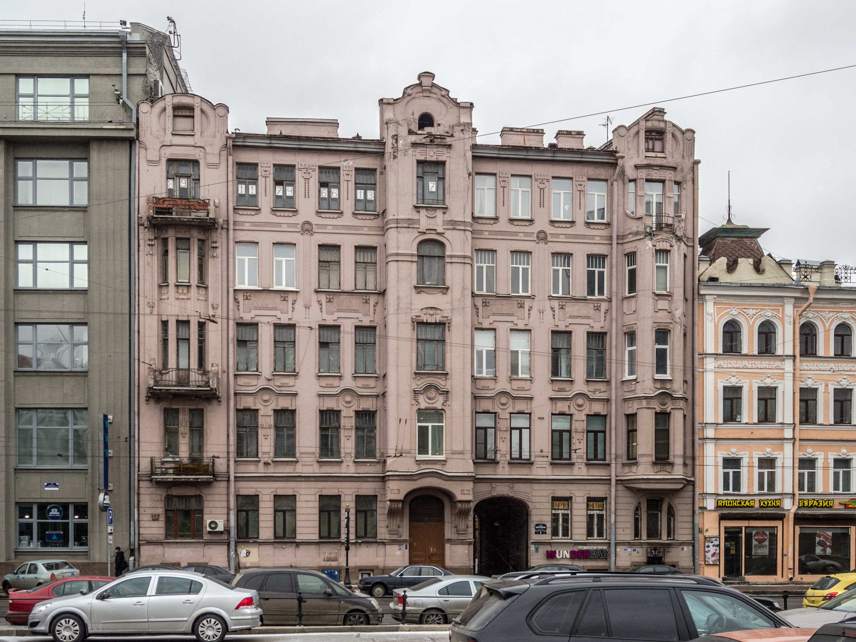 9, Dobroljubova avenue, Saint Petersburg